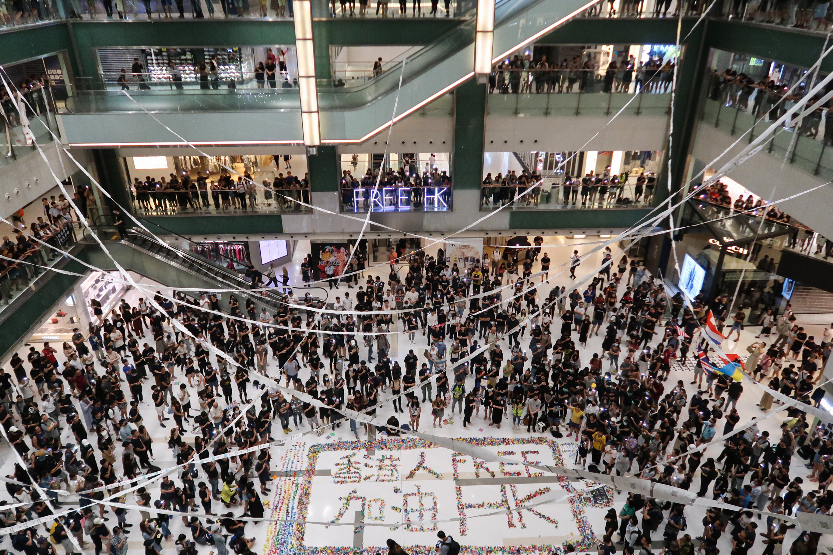 New Town Plaza protest